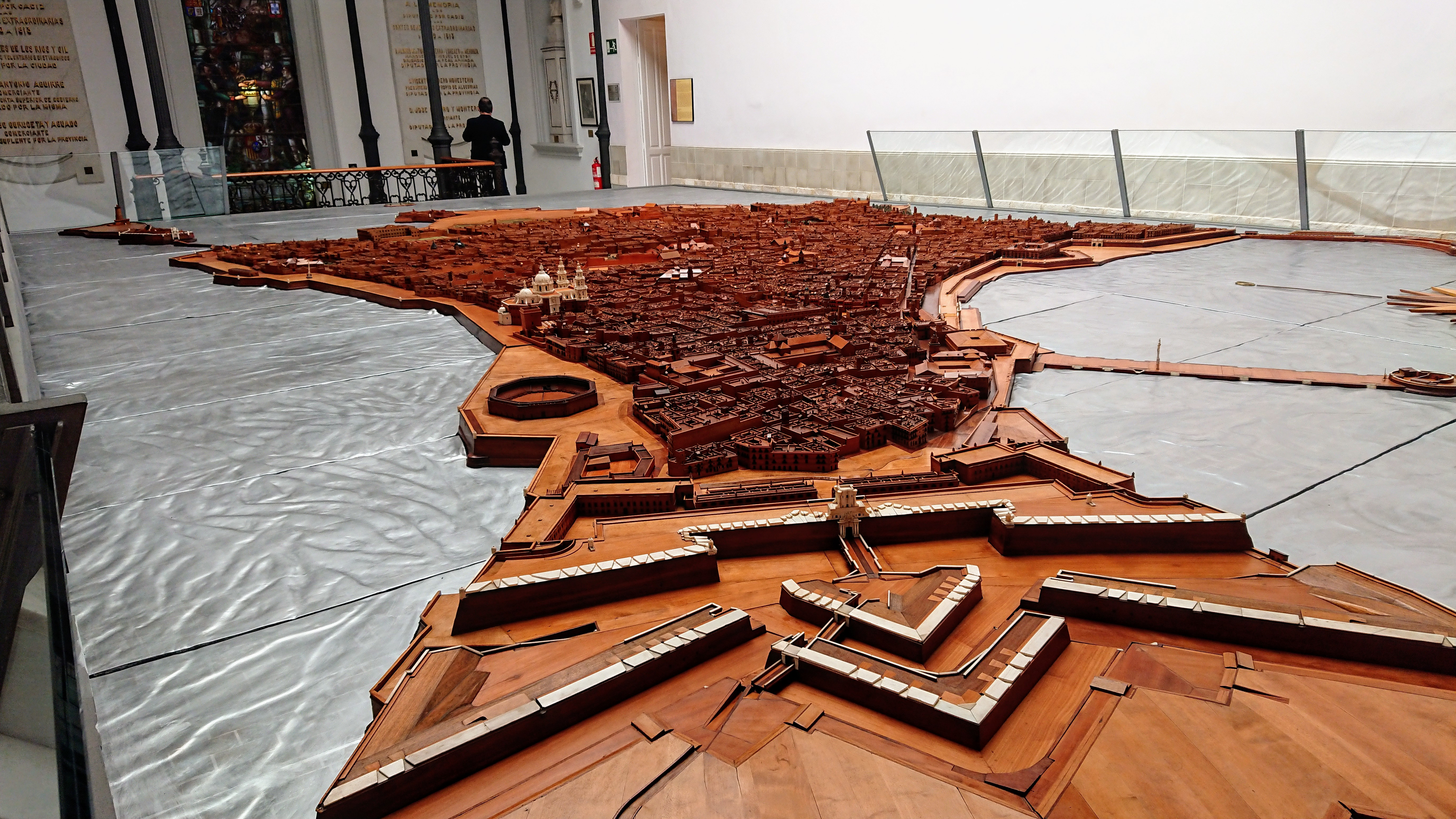 Cadiz City Model (1779), Museum of the 1812 Constitution, Cadiz (Spain)